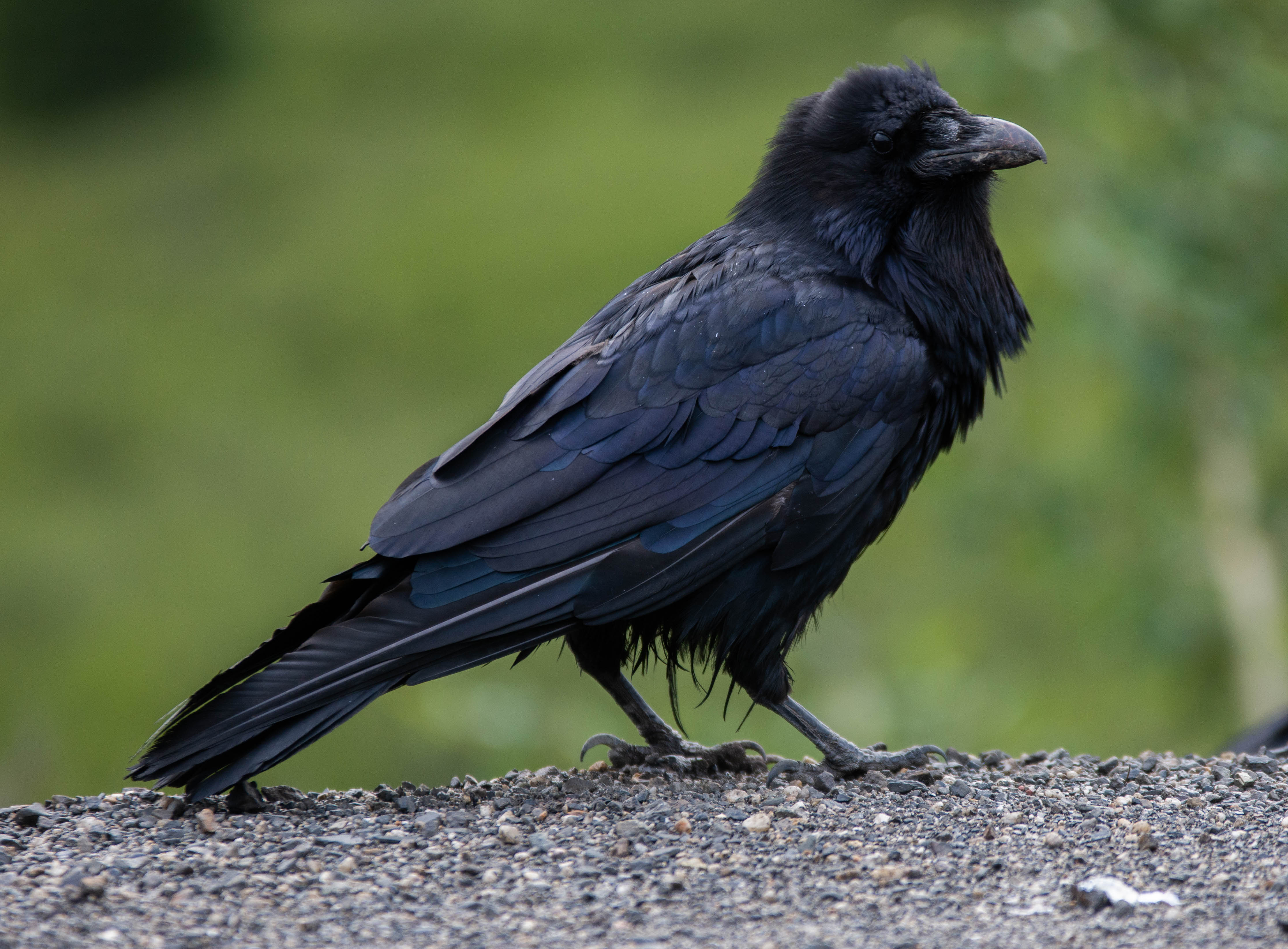 A raven